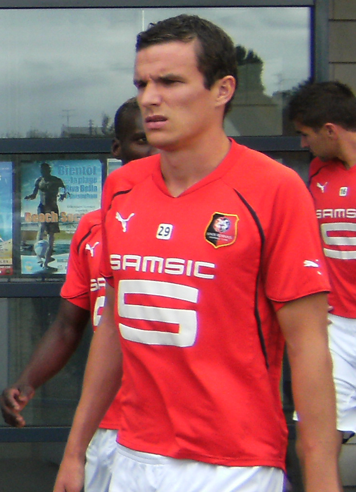 Romain Danzé before a friendly game between Stade rennais FC and Stade Malherbe de Caen in Ouistreham